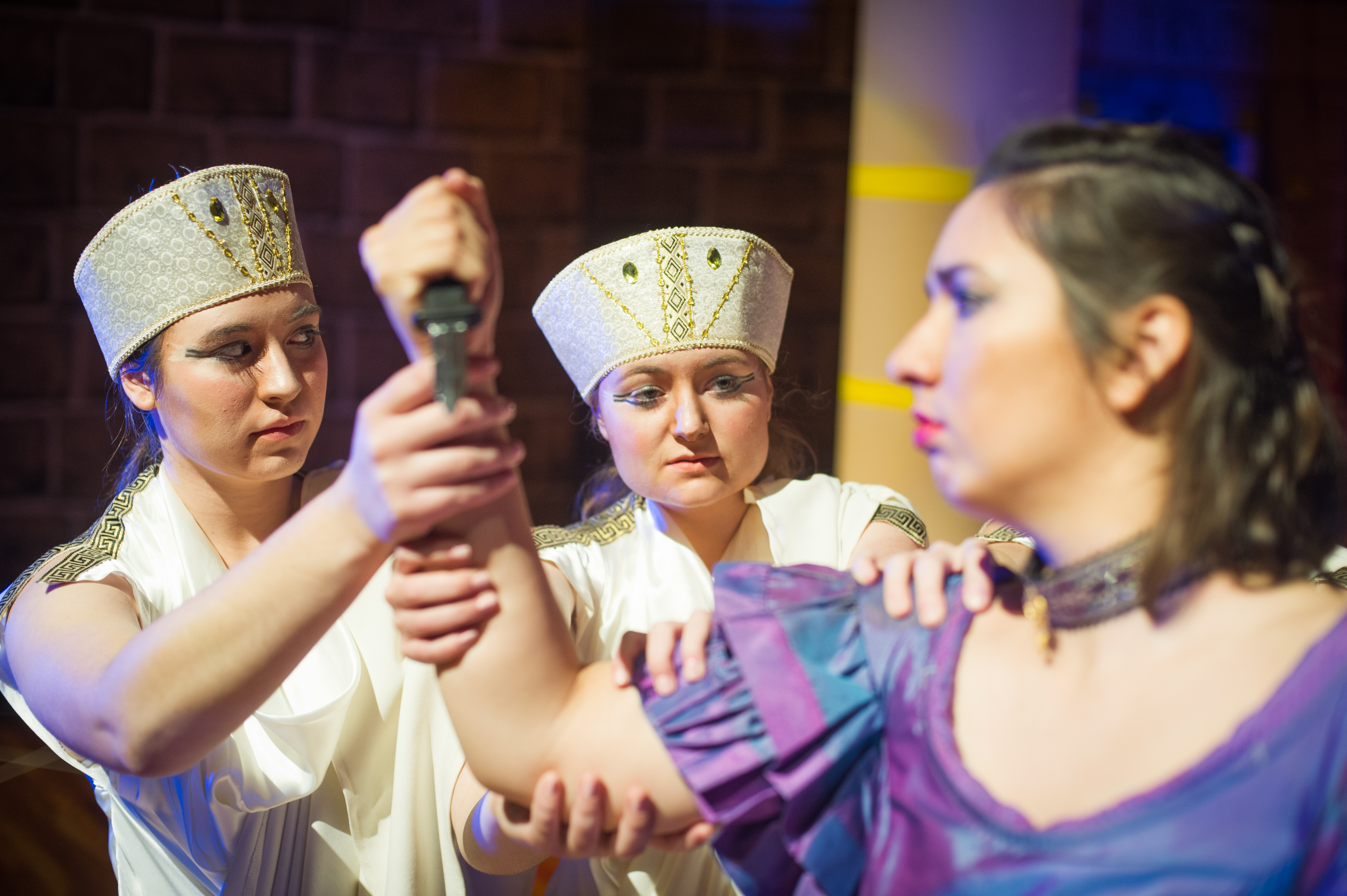 15031-Magic Flute Production-0458 Magic Flute production at Texas A&M University–Commerce